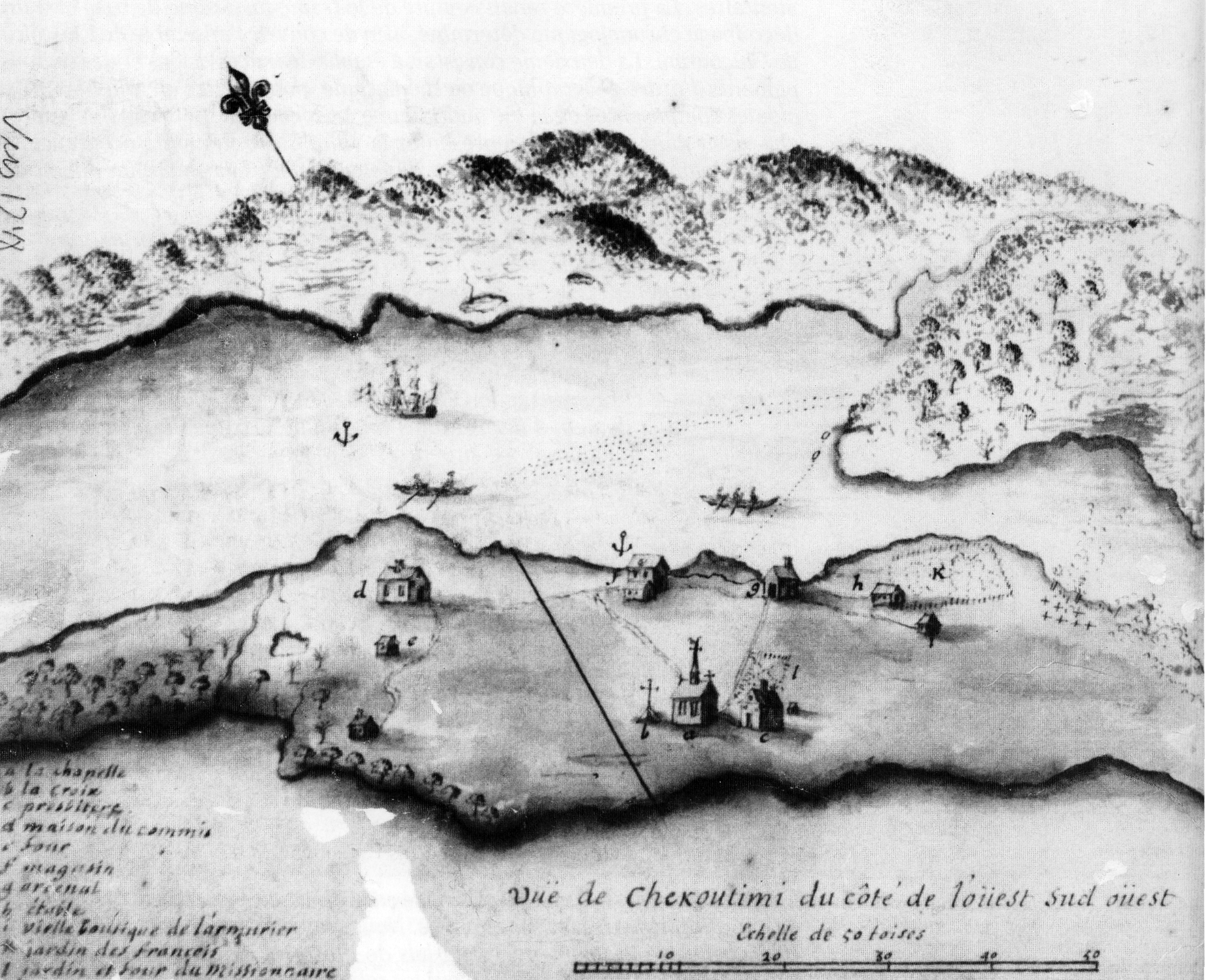 Map of Chicoutimi, in present-day Quebec, Canada, in the year 1748